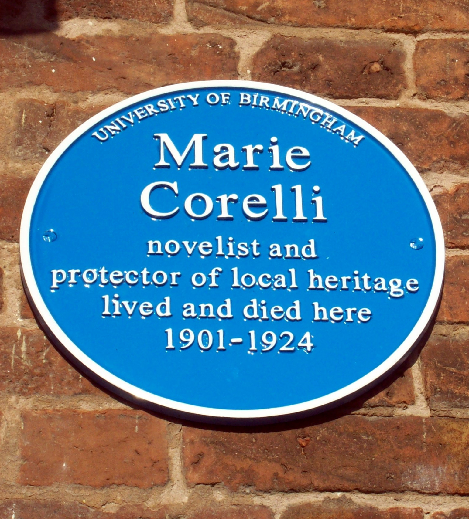 Blue plaque comemorrating Marie Corelli at Church Street, Stratford upon Avon, Warwickshire, England.